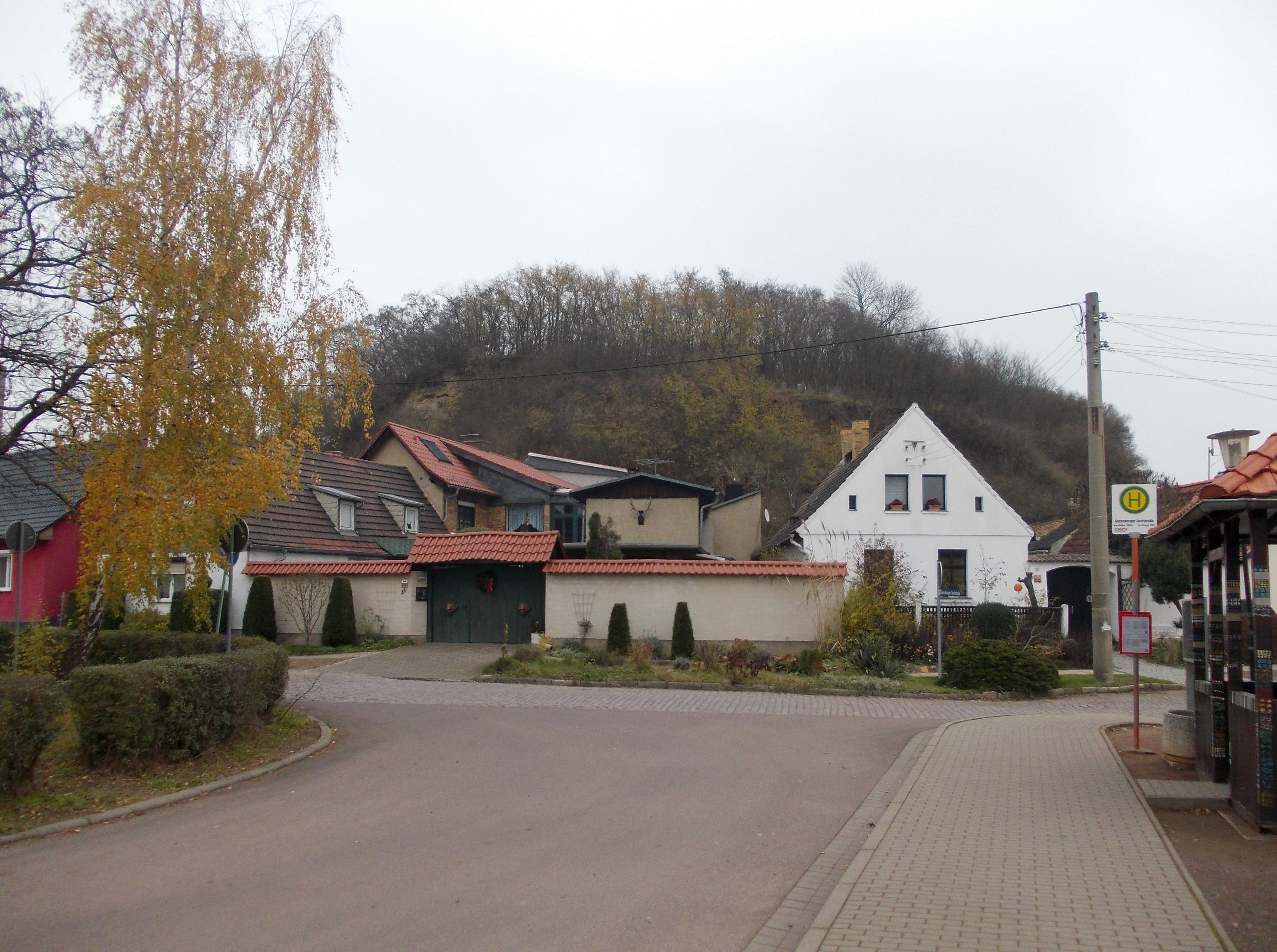 Guter Berg or Hoher Berg, a hill in the centre of the village of Gutenberg (Petersberg, district: Saalekreis, Saxony-Anhalt)